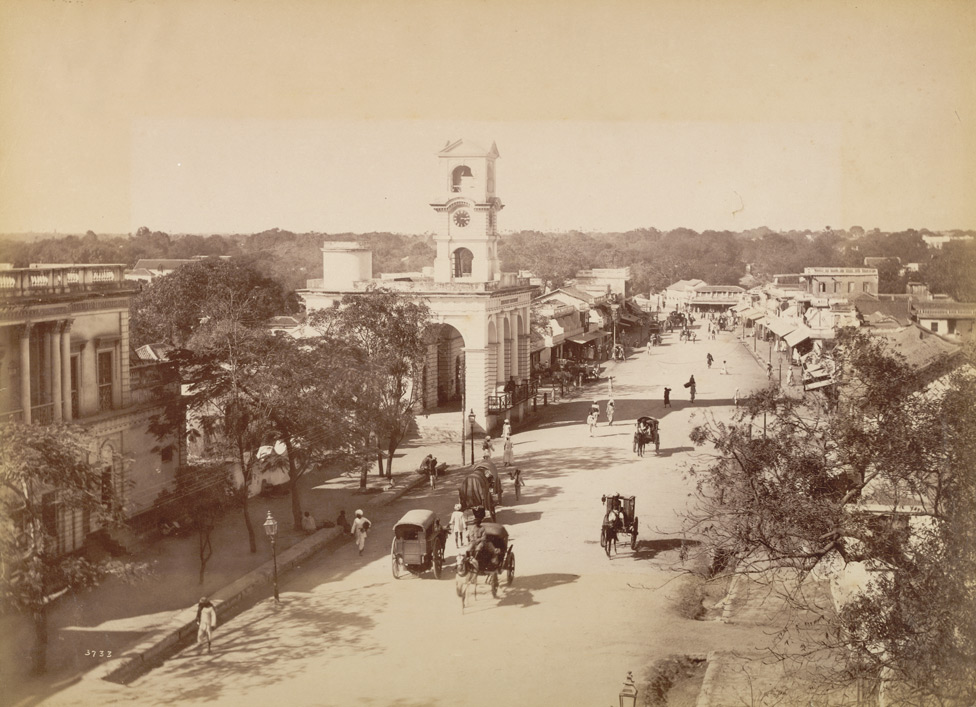 Photograph of a street in Secunderabad, Andrea Pradeah, taken by Deen Dayal in the 1880s, from the Curzon Collection: 'Views of HH the Nizam's Dominions, Hyderabad, Deccan, 1892'